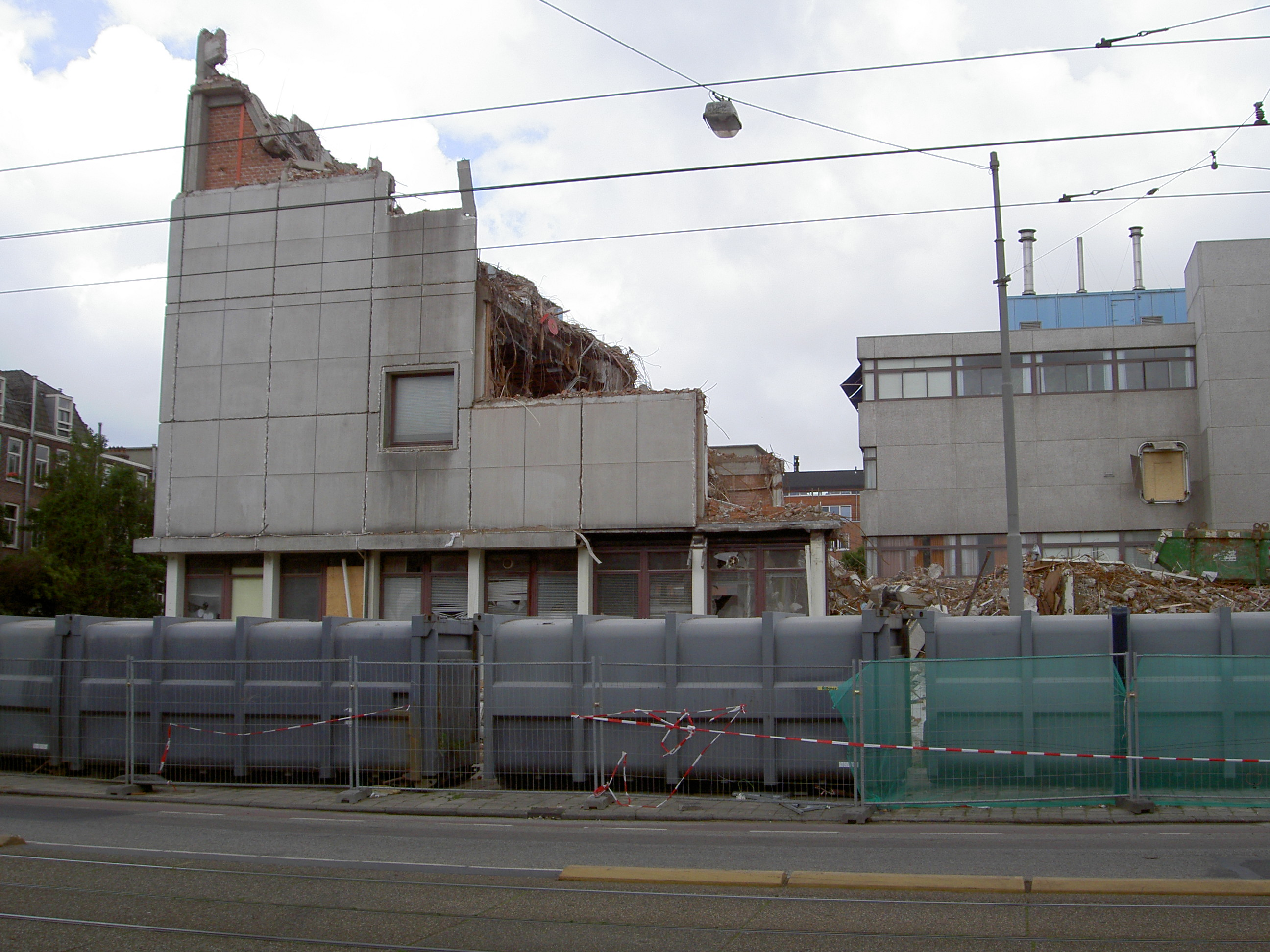 Sloop of Jan Swammerdam Instituut, Eerste Constantijn Huygensstraat at Amsterdam, Netherlands